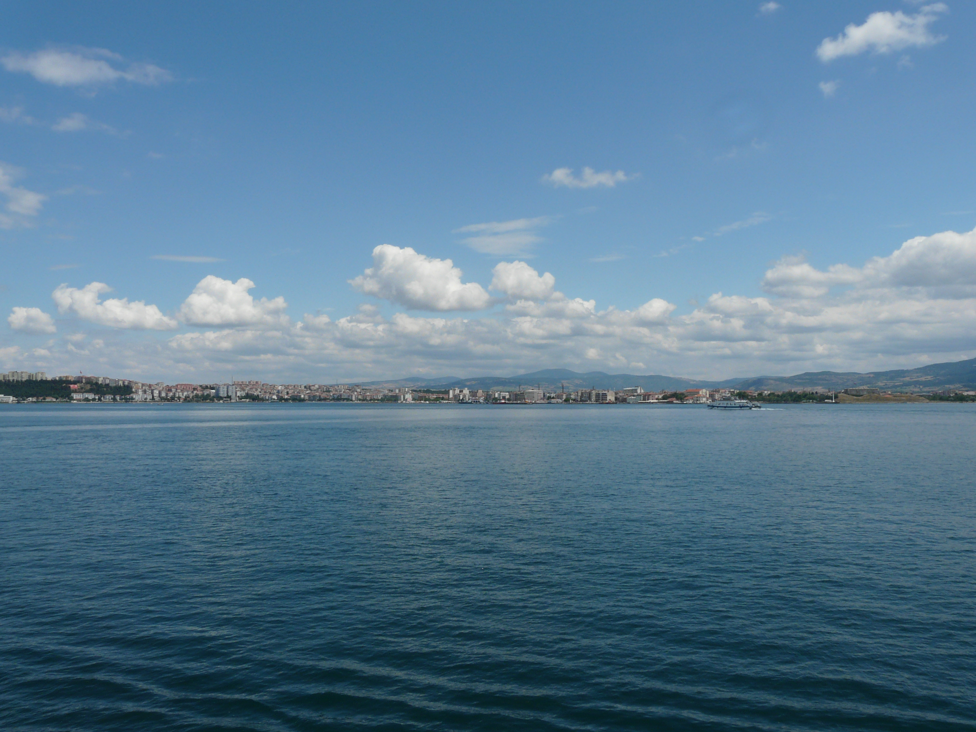 Chanakkale city (Turkey), view from Dardanelles strait. 25 of June, 2010.